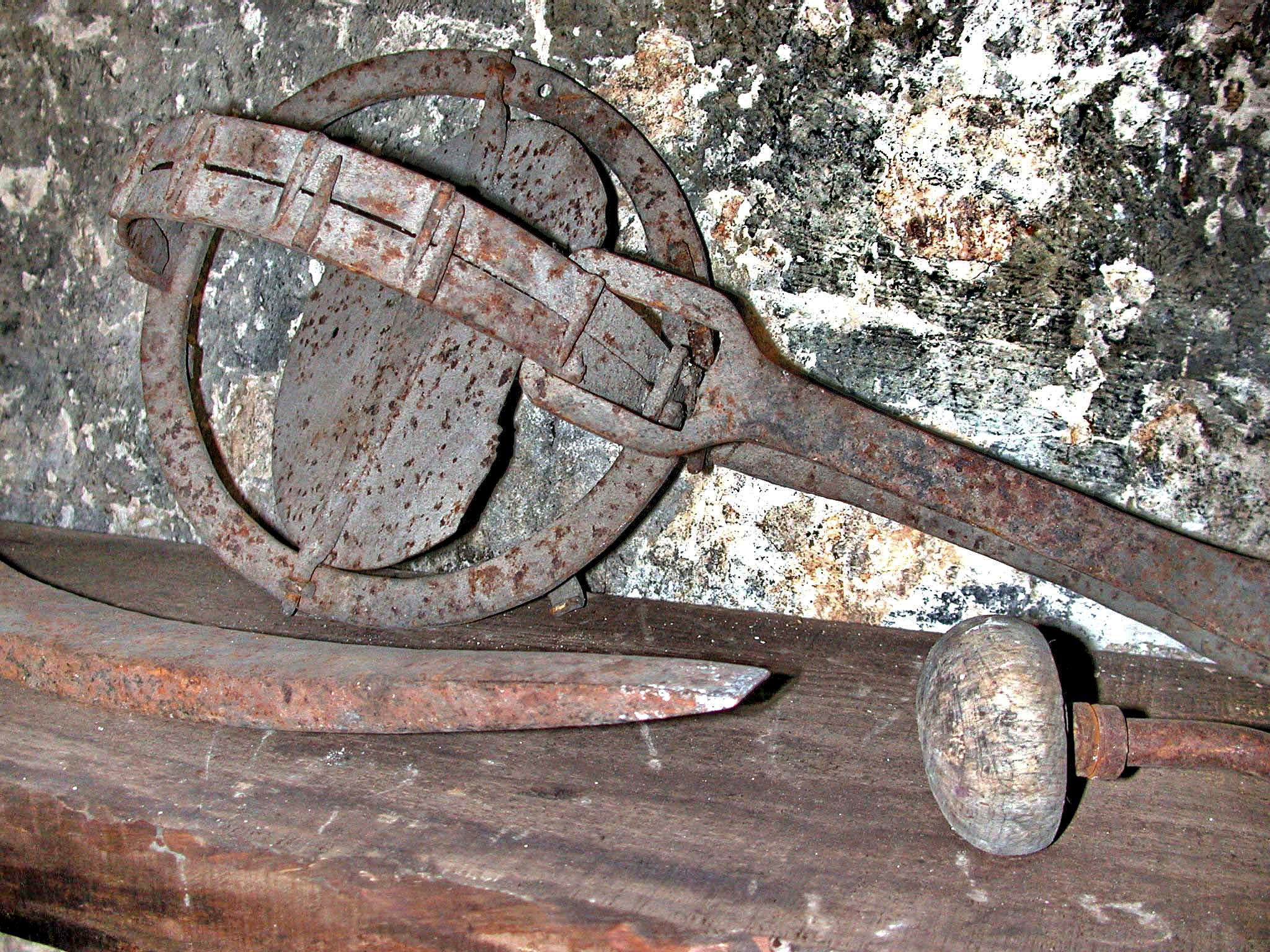 old mantrap